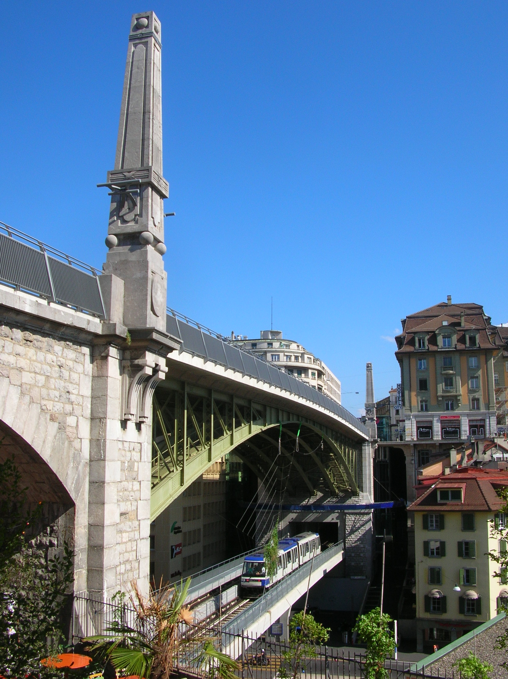 Bessieres Bridge, Lausanne, Switzerland